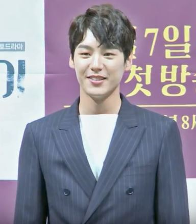 Kwak Siyang at the press conference of Chicago Typewriter